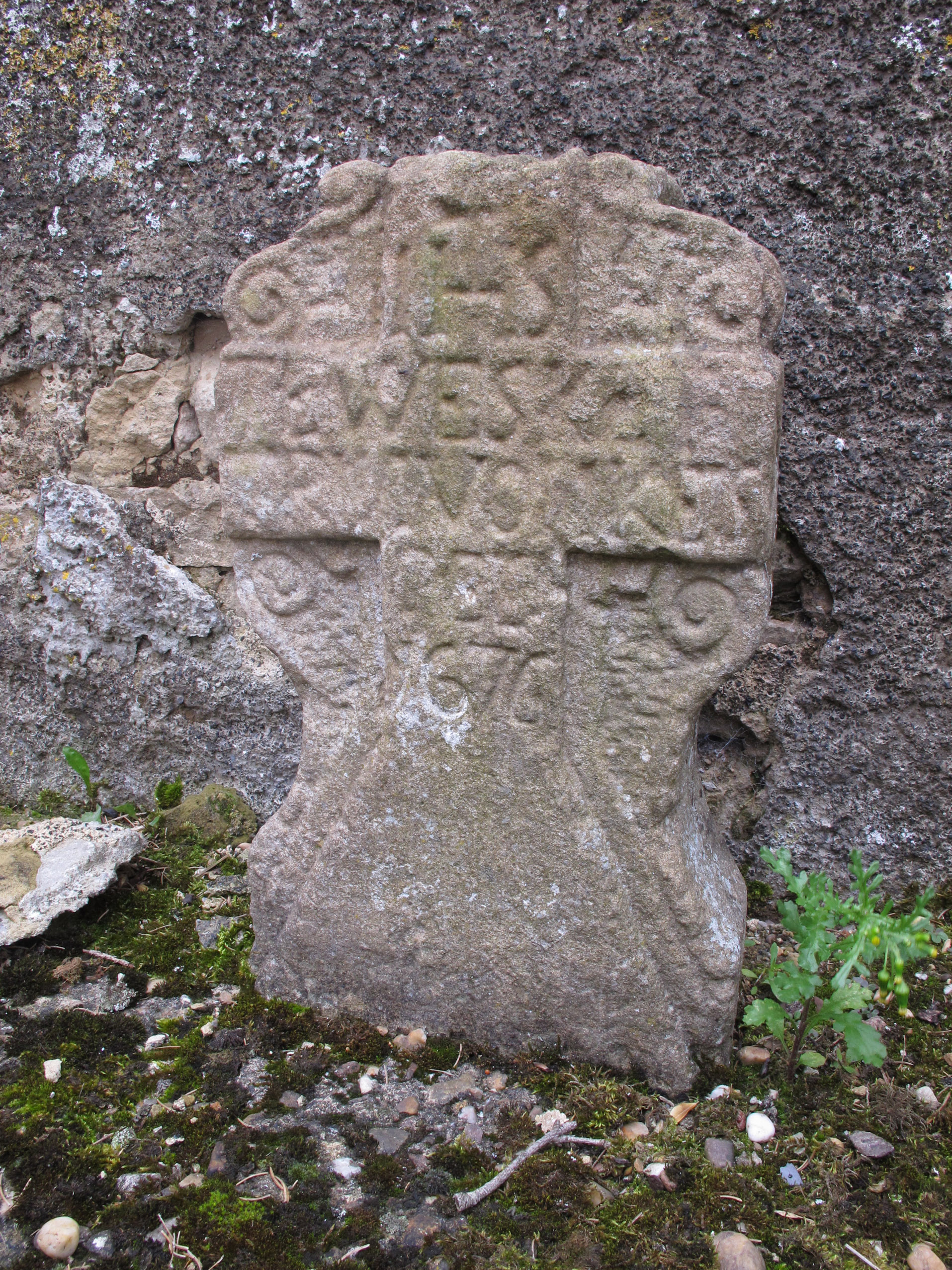 tombstone from 1676 on the cemetary "Schéimerech" near Kehlen, Luxembourg